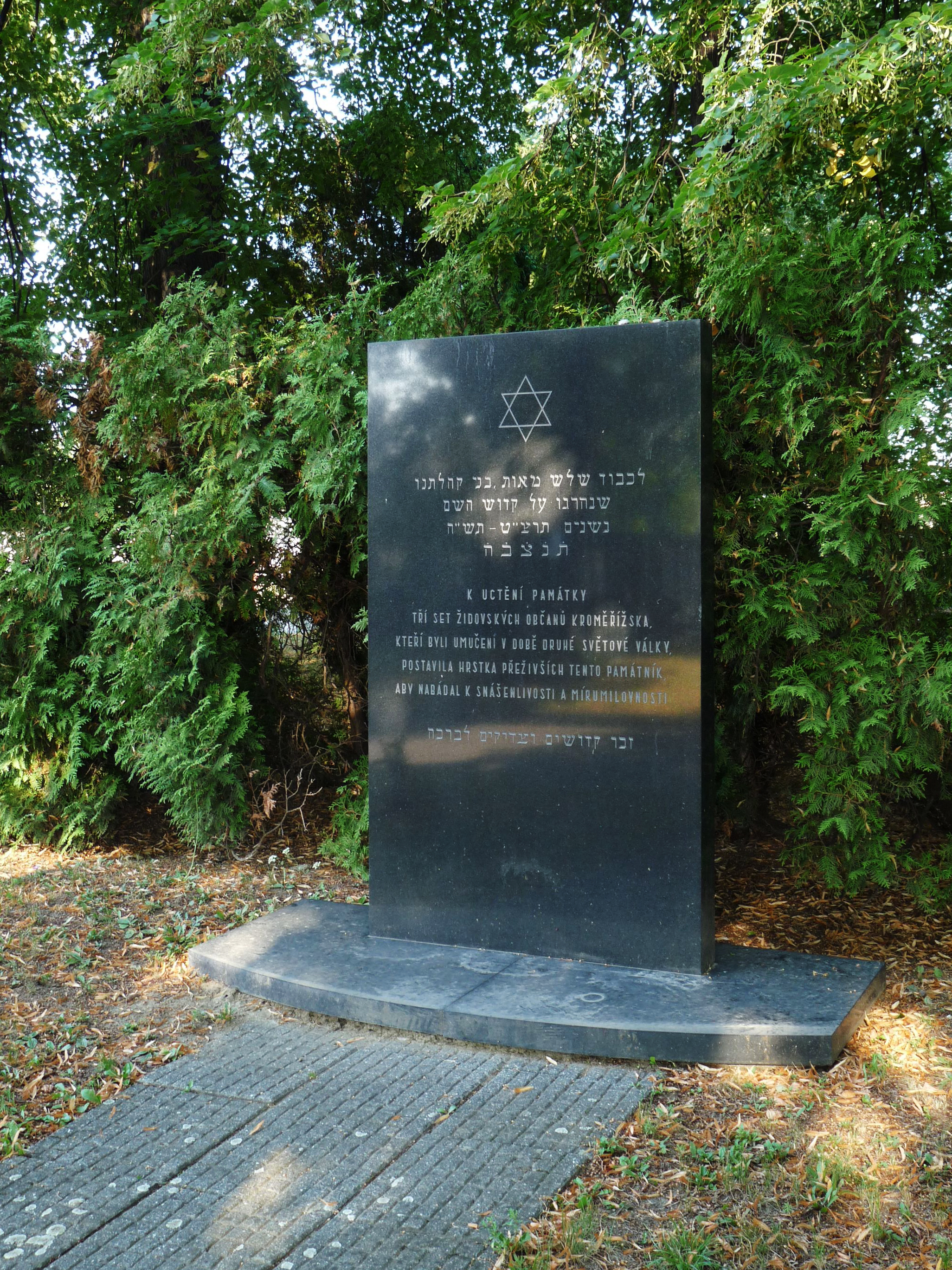 Jewish cemetery in the town of Kroměříž, Zlín Region, Czech Republic.